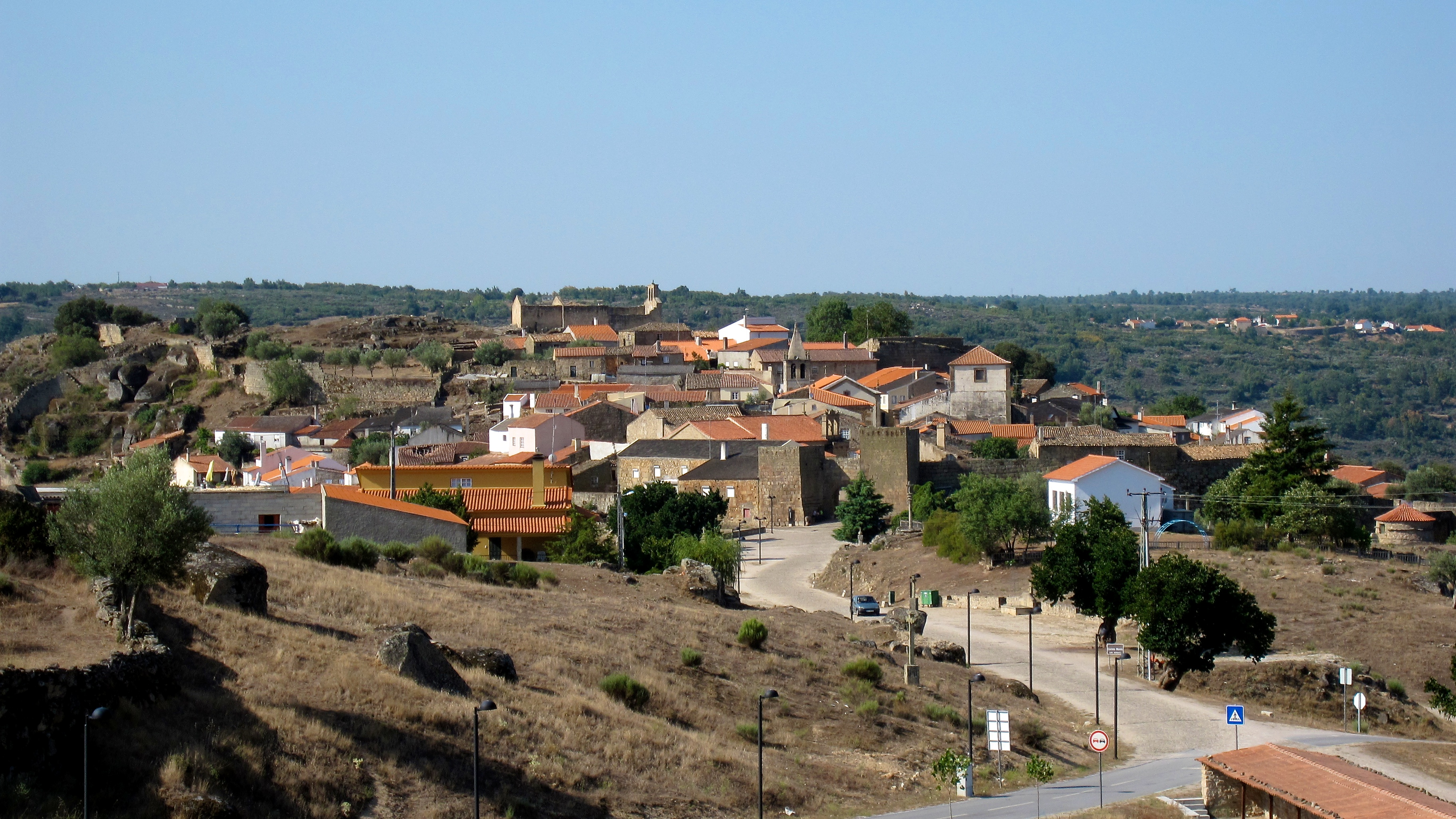 This file was uploaded for Wiki Loves Monuments in Portugal with the unique identifier 73023. This monument is classified as Imóvel de Interesse Público. This building is classified as Imóvel de Interesse Público.